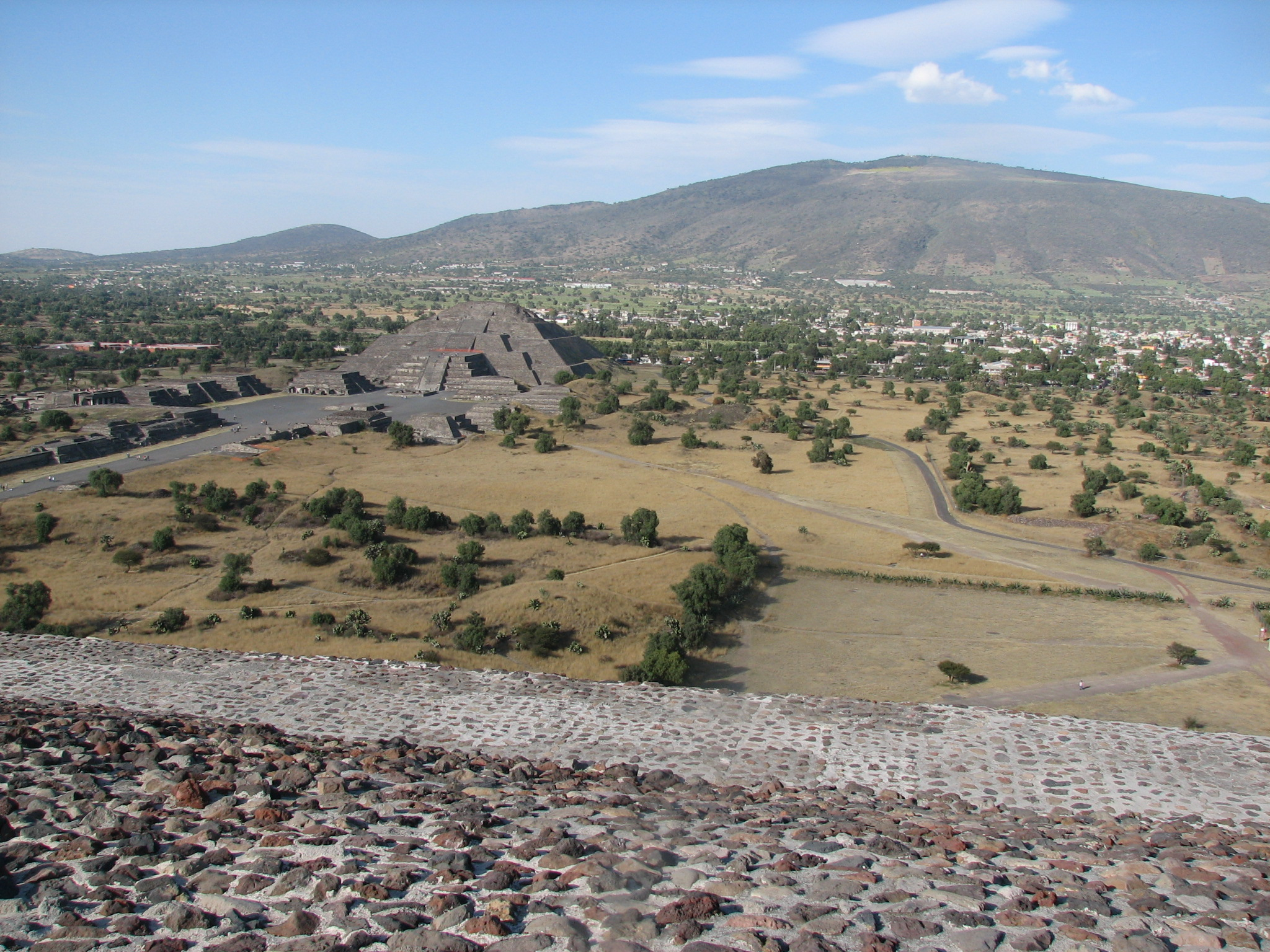 Mexico Teotihuacán pyramid of the moon